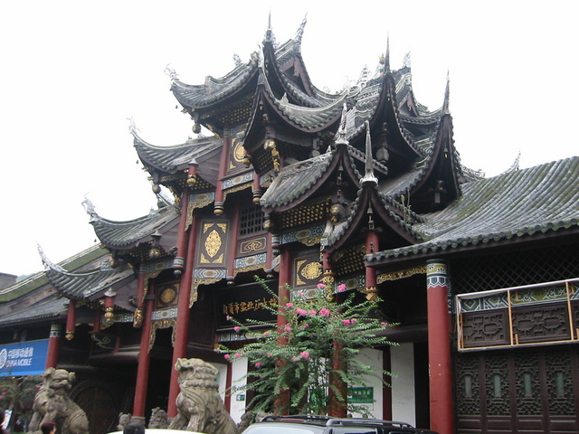 This is the front of the Zigong Salt Museum. It was once a Salt Merchant Guild Hall but now it has been converted to a museum on the history of Salt in Zigong. This was taken while on a trip to Zigong in September, 2004. The author's family is from Zigong and was employed in the Salt industry in the 1930s and 1940s.